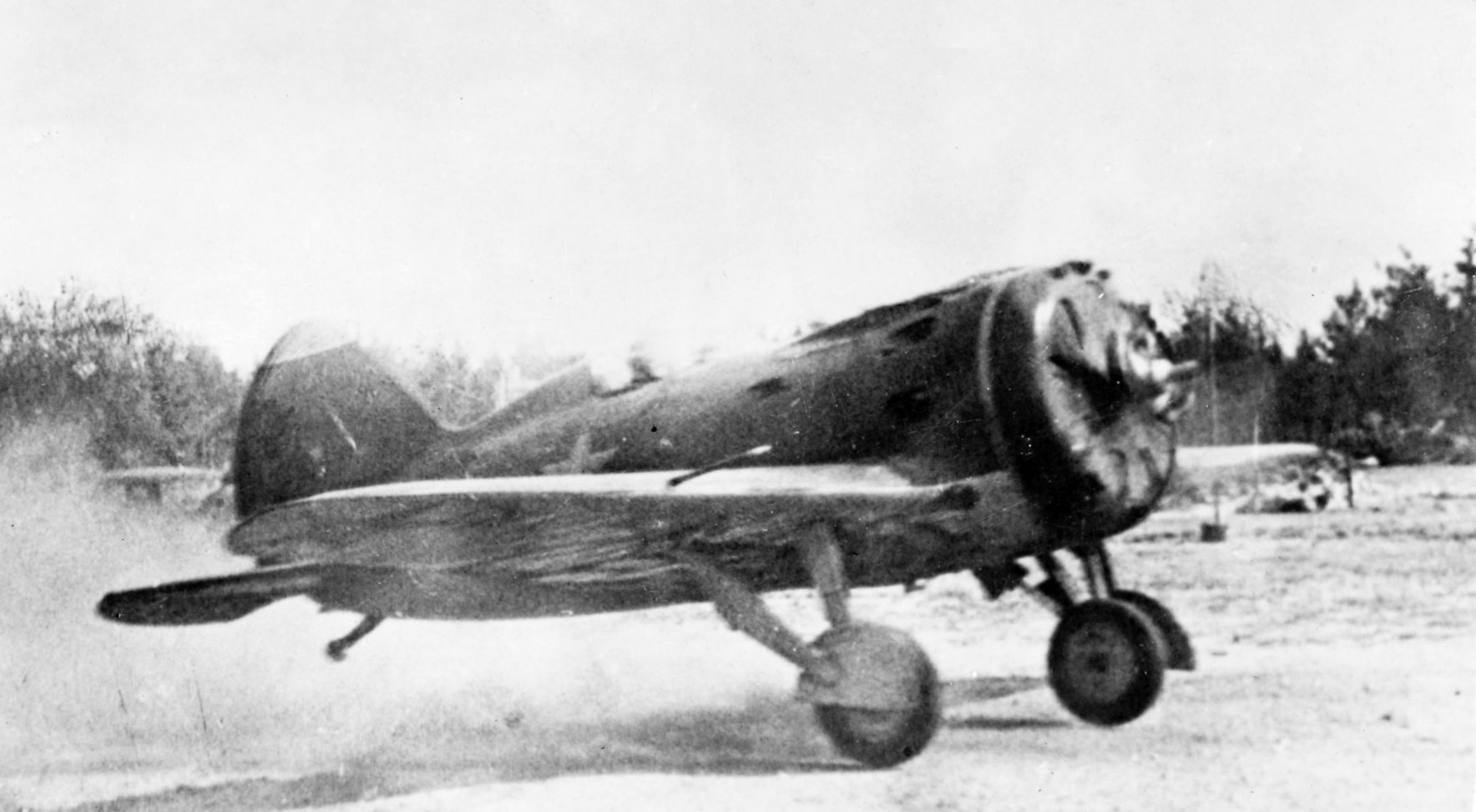 Catalog #: 15_002202 Title: Polikarpov I-16B Date: 1936 Collection: Charles M. Daniels Collection Photo Album Name: Soviet Aircraft Page #: 1 Tags: Soviet Aircraft, Charles Daniels, PUBLIC COMMONS.SOURCE INSTITUTION: San Diego Air and Space Museum Archive